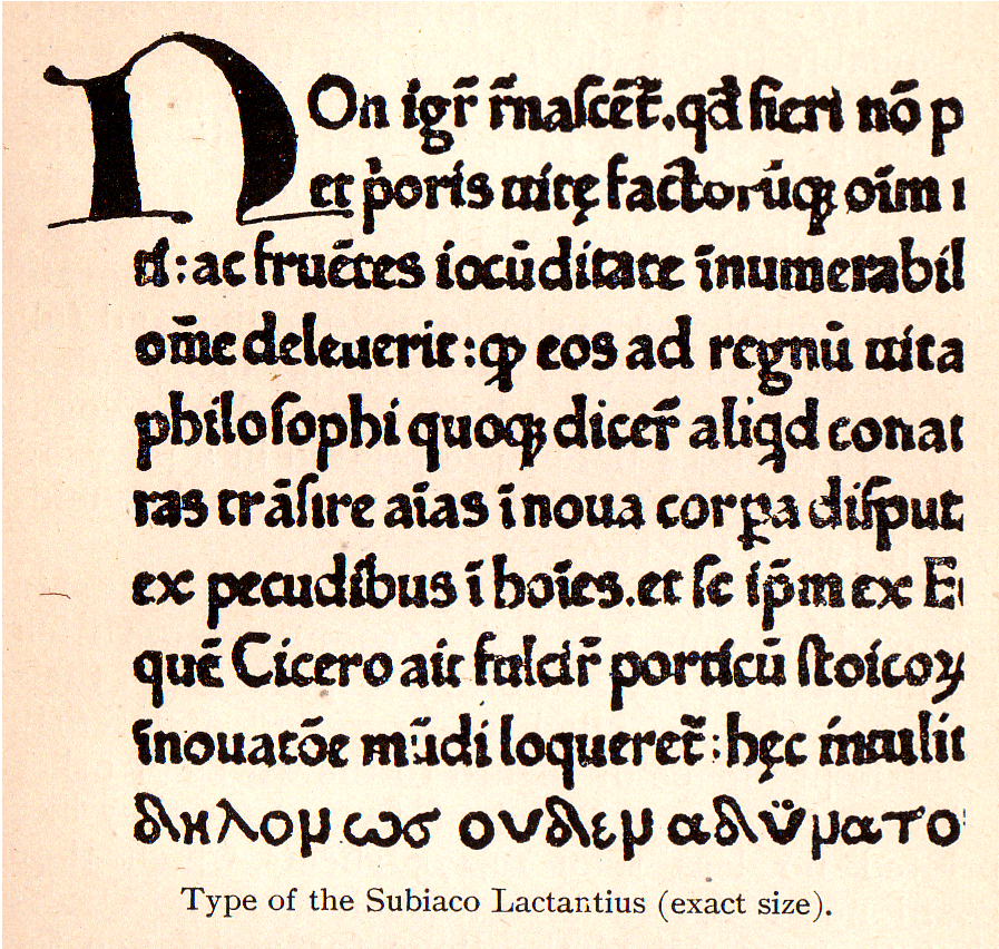 Example of the typeface used by Pannartz and Sweynheim in 1465 at Subiaco to print the Divinae instituiones of Lactantius.